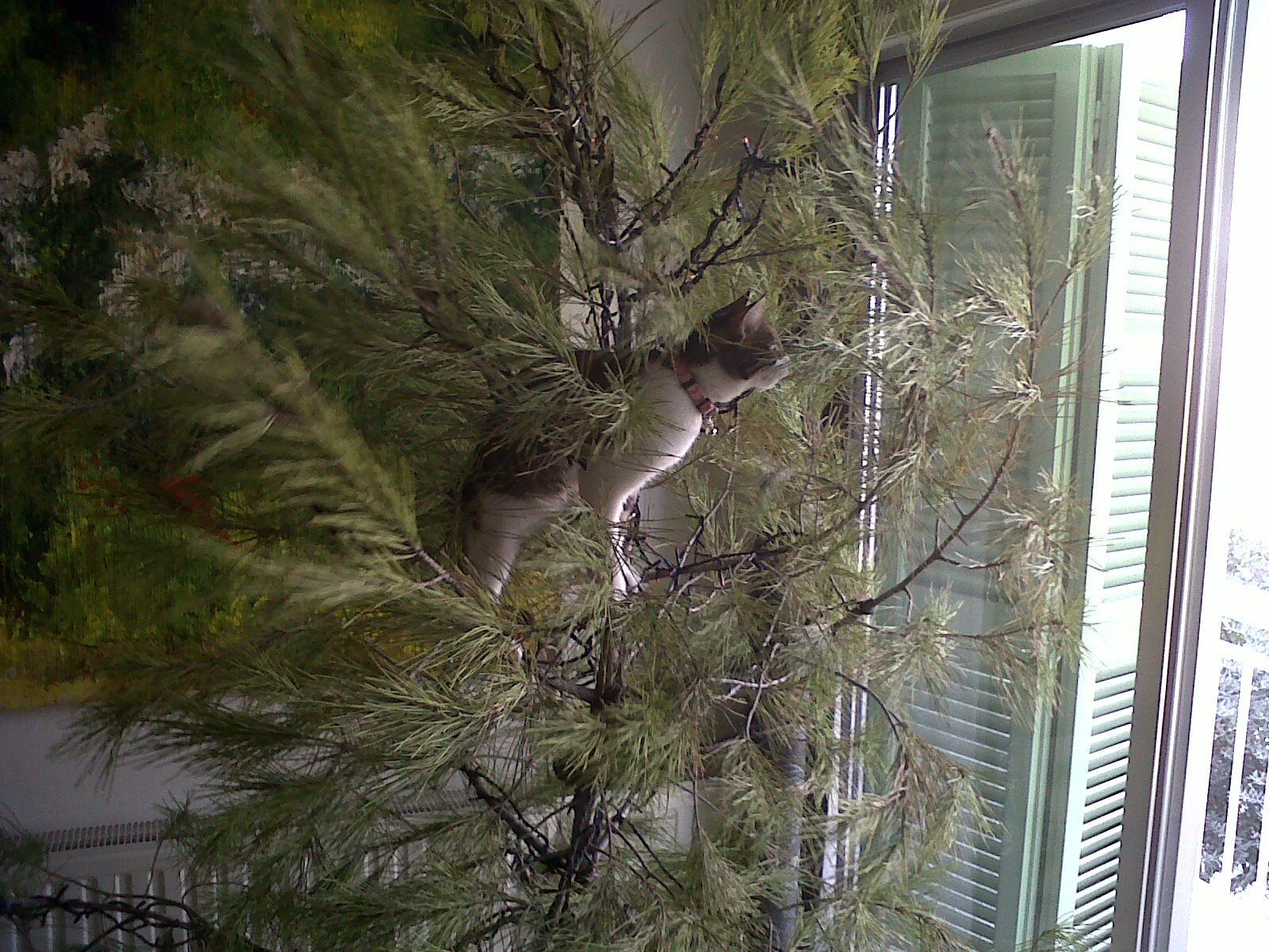 Cyprus Shorthair cat climbing a tree